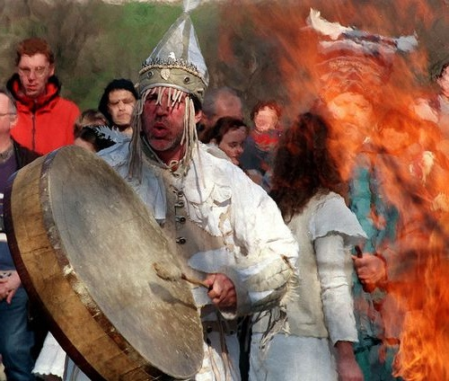 Hungarian taltos (shaman) holding a ritual, with a drum, in front of a fire.